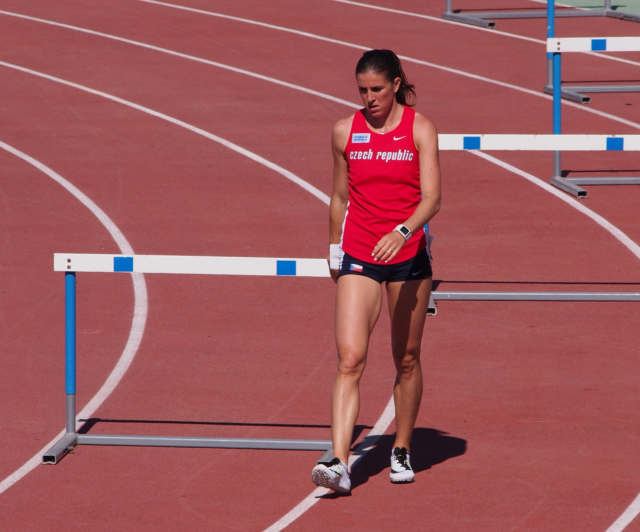 Zuzana Hejnová, during warming up for the 400m Hurdles Women-Final, Heat 2, at 2015 European Team Championships First League.